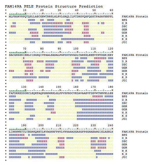 FAM149A Secondary Structure from PELE via Biology WorkBench 1.